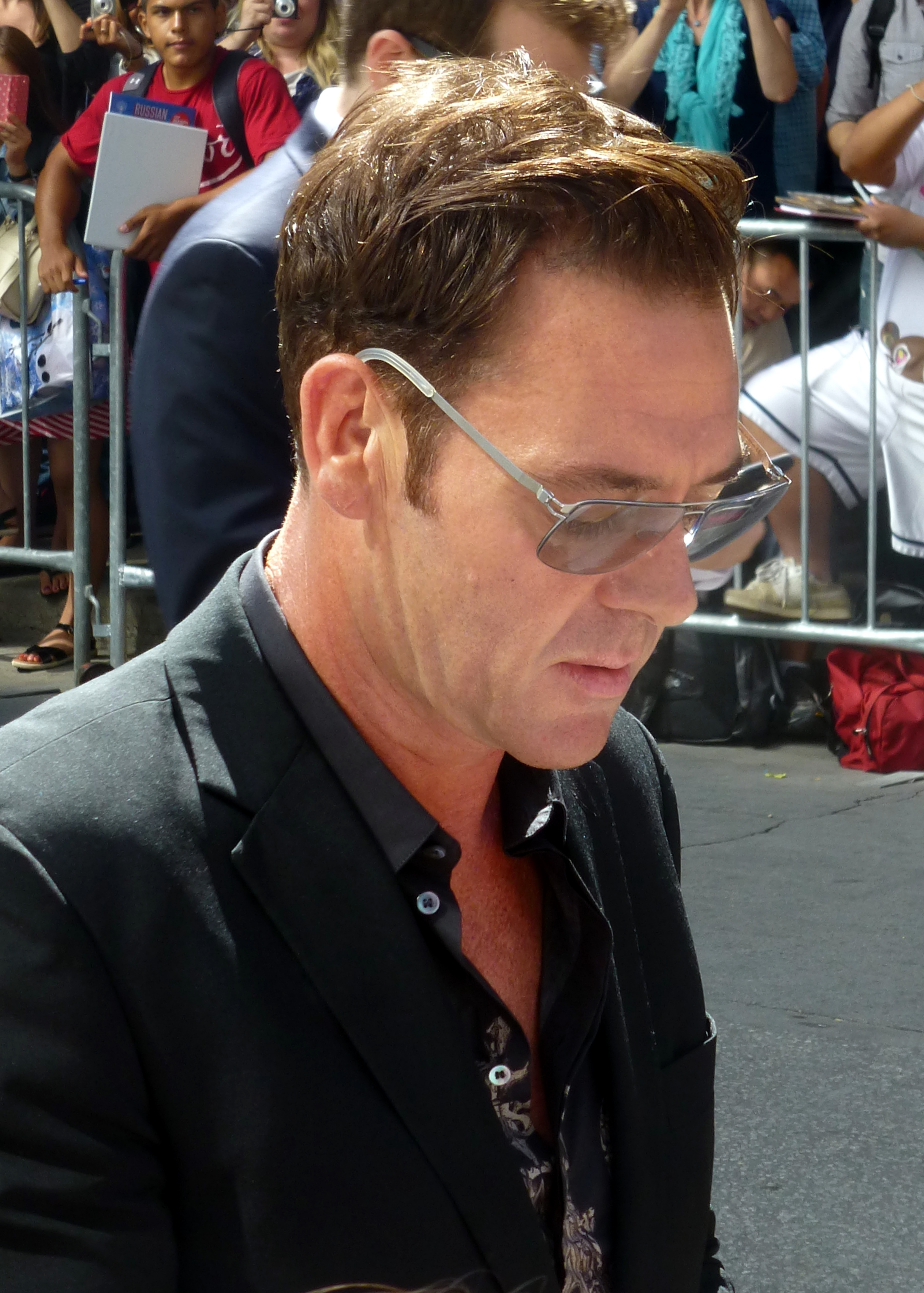 Marton Csokas at the press conference of The Equalizer, 2014 Toronto Film Festival